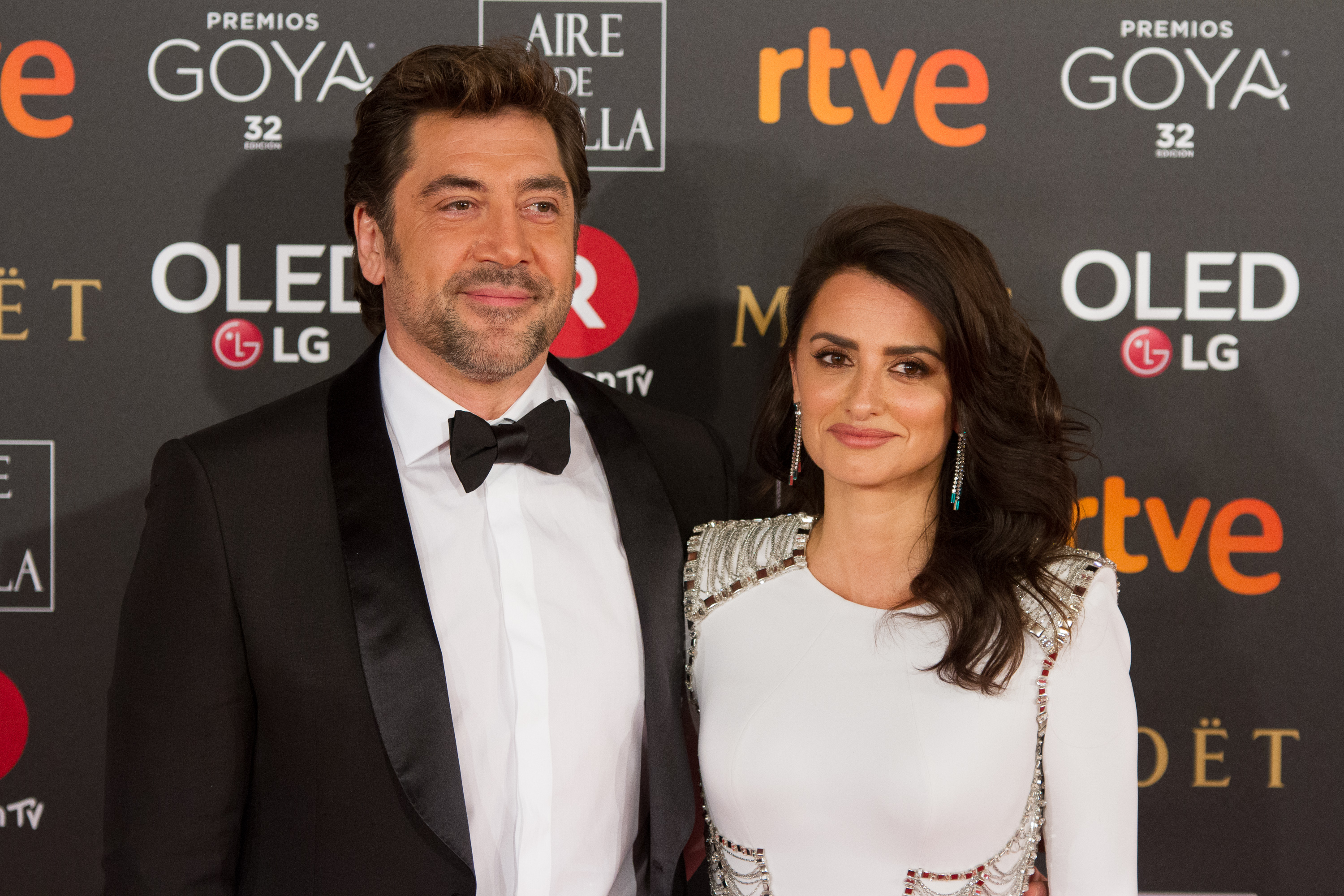 32nd Goya Awards, 2018.